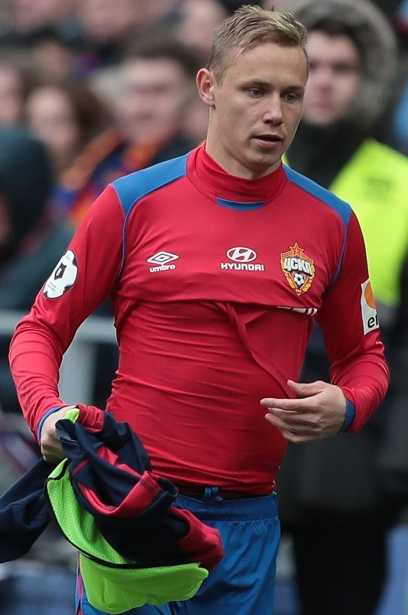 Dmitri Yefremov with PFC CSKA Moscow during a game against FC Orenburg.